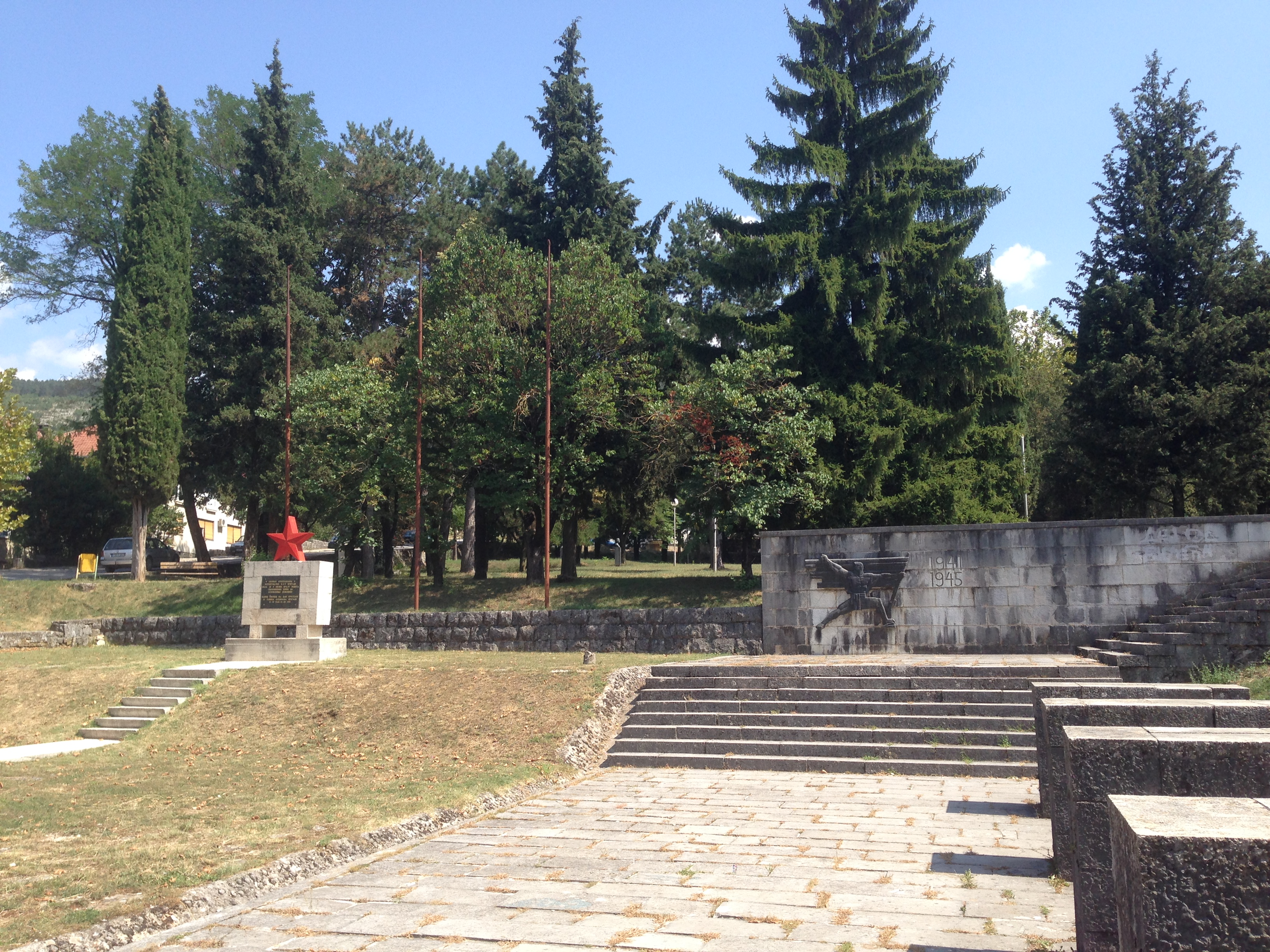 Monuments to the People's Heroes of Yugoslavia